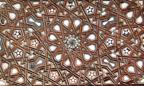 Carvings on the doors of the Al-Muayyad Mosque in Cairo.